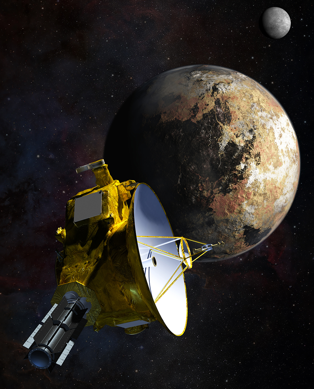 January 15, 2015 - RELEASE 15-011 NASA’s New Horizons Spacecraft Begins First Stages of Pluto Encounter Artist’s concept of NASA’s New Horizons spacecraft as it passes Pluto and Pluto’s largest moon, Charon, in July 2015.